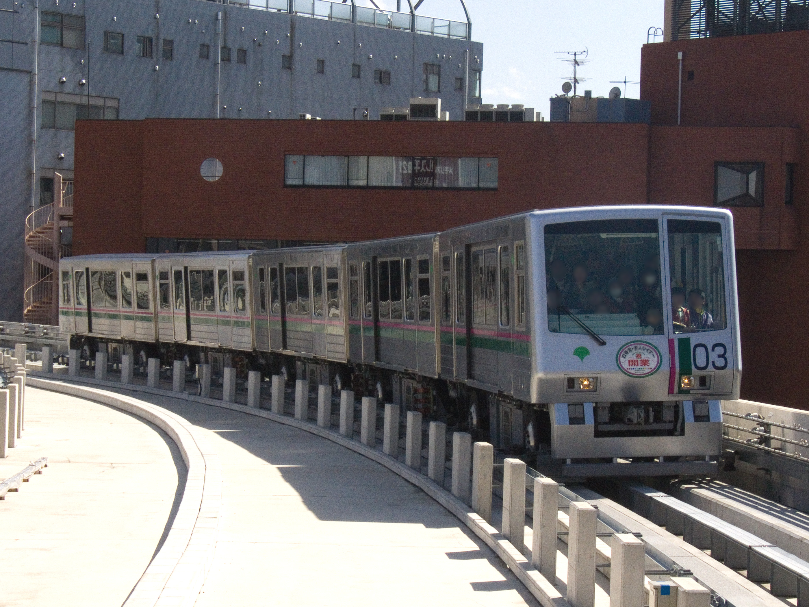 A Toei 300 series EMU on the Nippori-Toneri Liner between Nippori and Nishi-Nippori stations in Tokyo, Japan